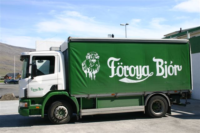 A truck of the Föroya Bjór brewery in Klaksvík, Faroe Islands.